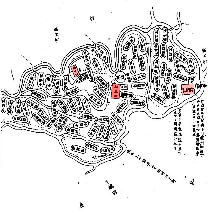 The map is Kstushika Gun in Musashiin, Japan. Edo peridod.(by Shinoen Mushashi Hudokikou”新編武蔵風土記稿”).